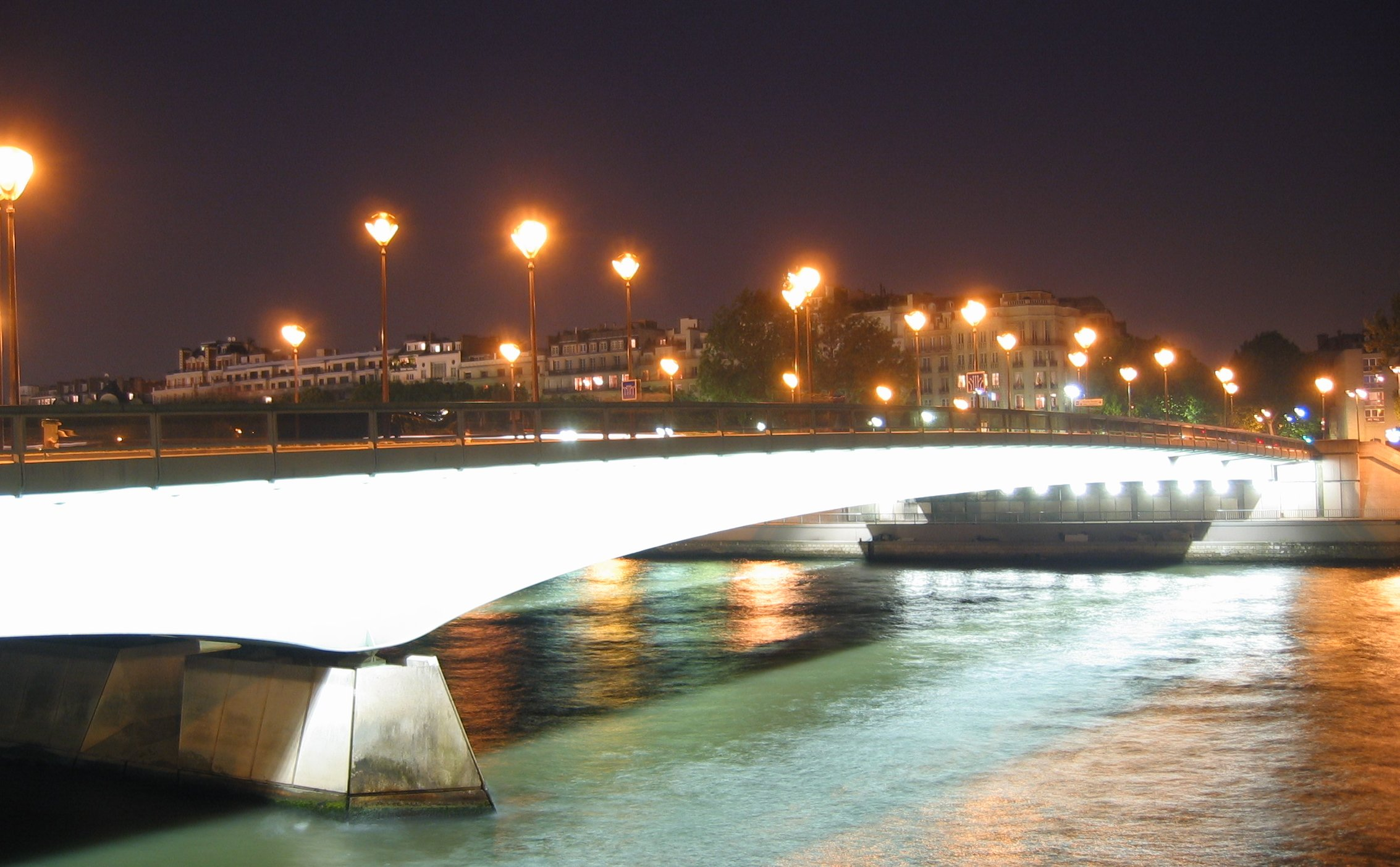 A photo of the Alma Bridge in Paris